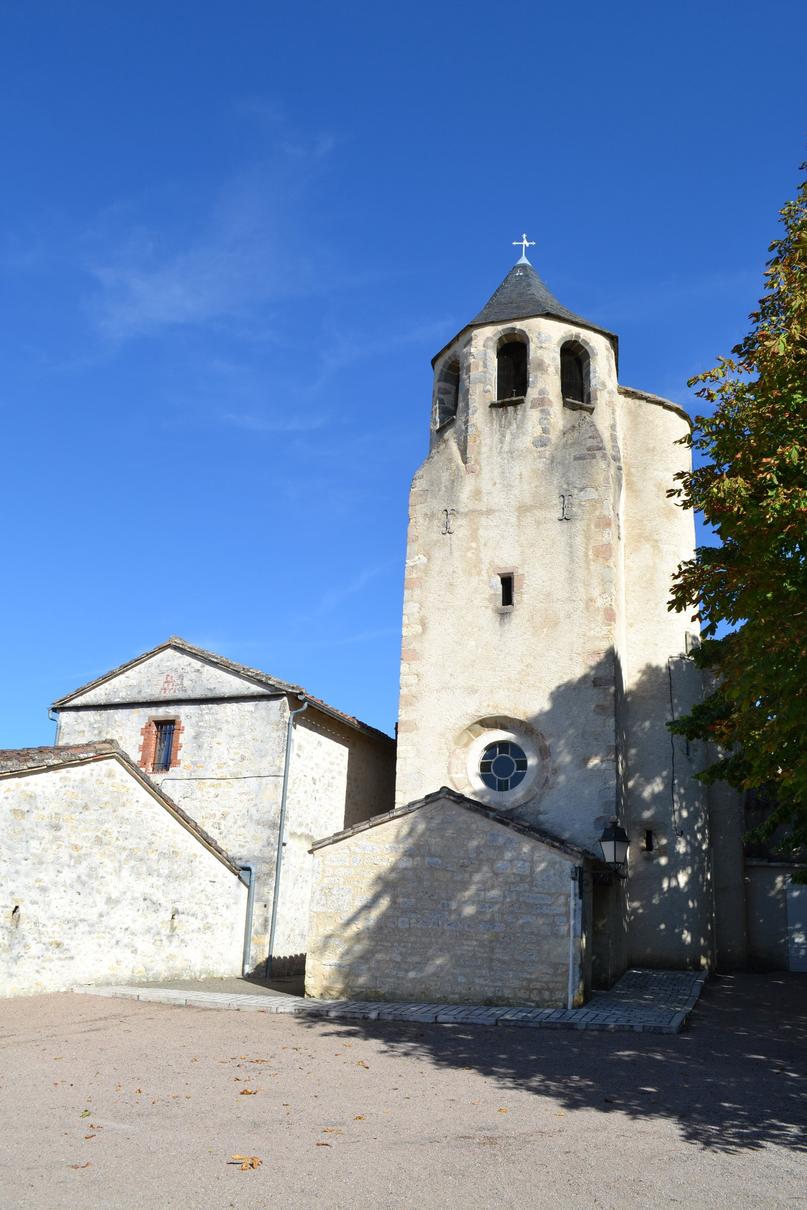 Frausseilles church, Tarn.